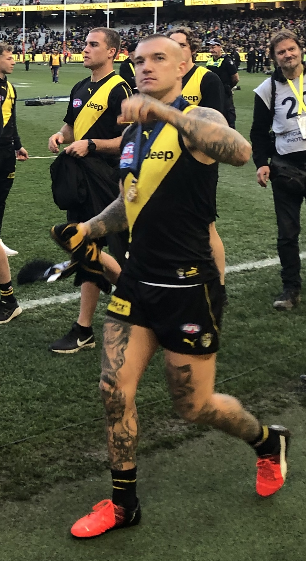 Dustin Martin at the 2019 AFL Grand Final